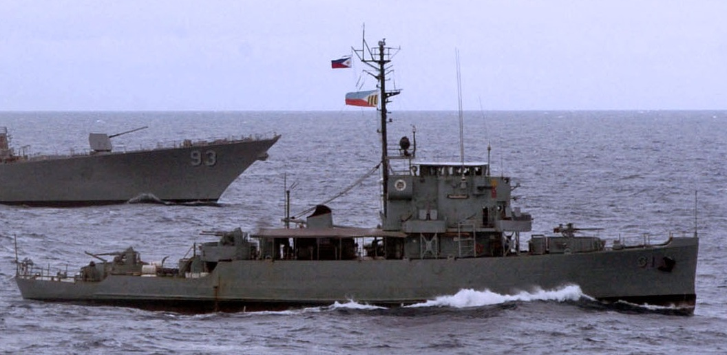 110705-N-VY256-028 SULU SEA (July 5, 2011) The guided-missile destroyer USS Chung-Hoon (DDG 93) and the Armed Forces of the Philippines Navy corvette BRP Pangasinan (PS 31) are underway supporting Cooperation Afloat Readiness and Training (CARAT) Philippines 2011. CARAT is a series of bilateral exercises held annually in Southeast Asia to strengthen relationships and enhance force readiness. (U.S. Navy photo by Mass Communication Specialist 3rd Class Christopher S. Johnson/Released) - photo zoomed in on BRP Pangasinan.